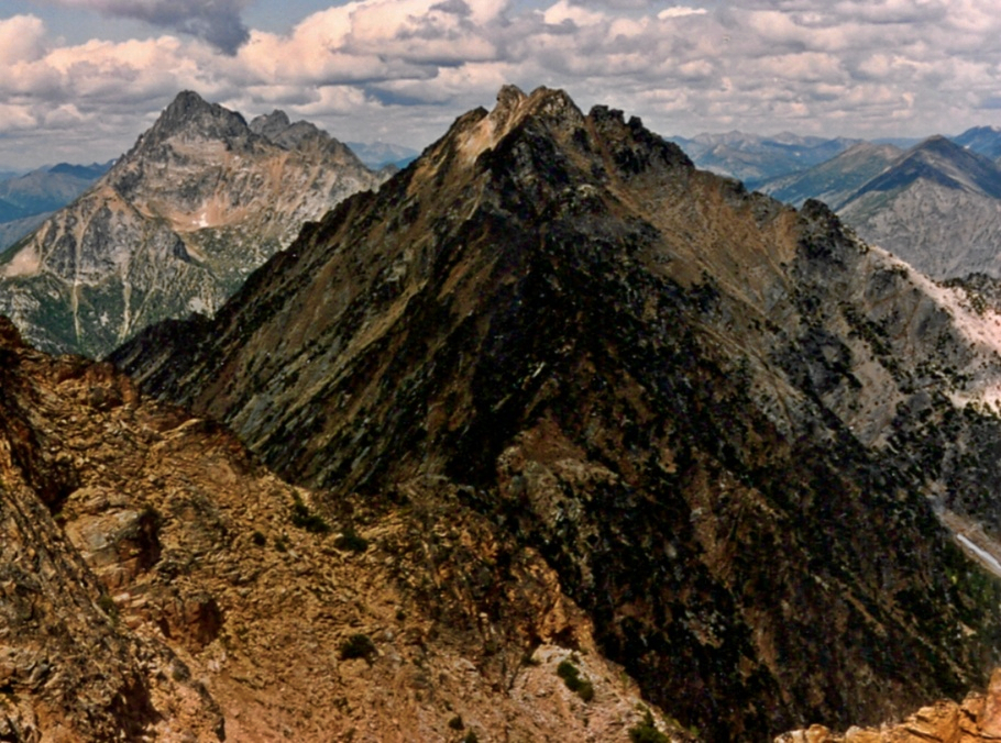 Holliway Mountain and Azurite Peak (left) seen from the Golden Horn area. North Cascades